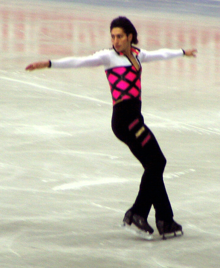 Emanuel Sandhu at the World championships 2004 in Dortmund in Germany